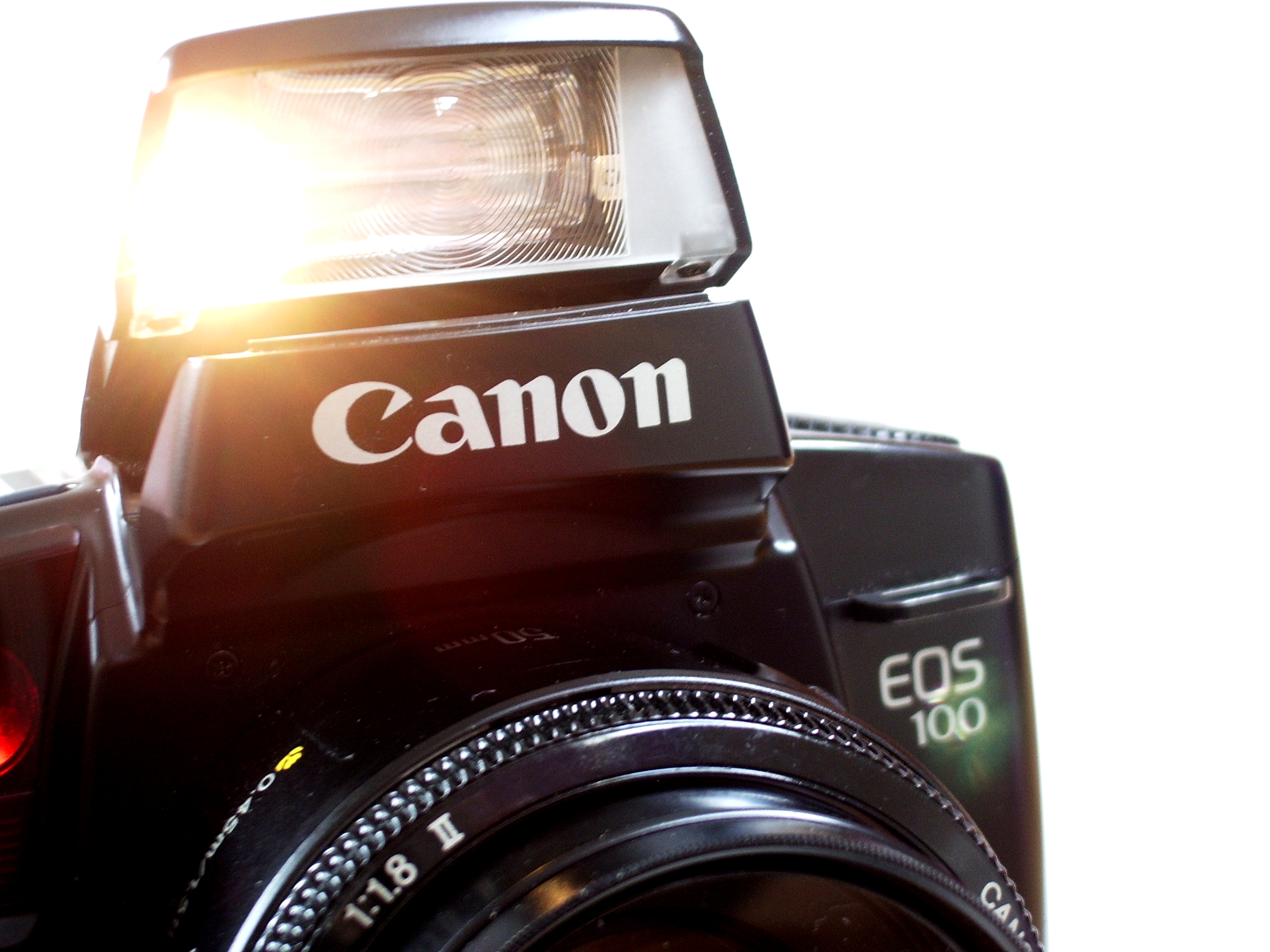 Canon EOS 100 integrated flash with red-eye reduction light.